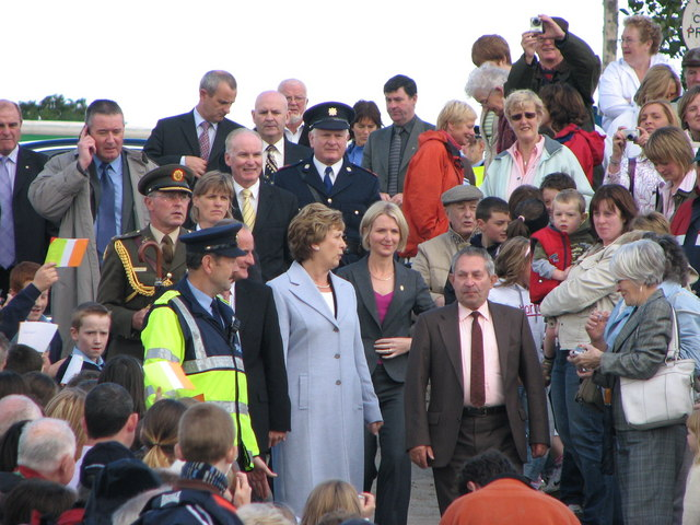 Presidential arrival Mary McAleese,President of Ireland arrives to unveil a statue depicting the Flight of the Earls at Rathmullan.